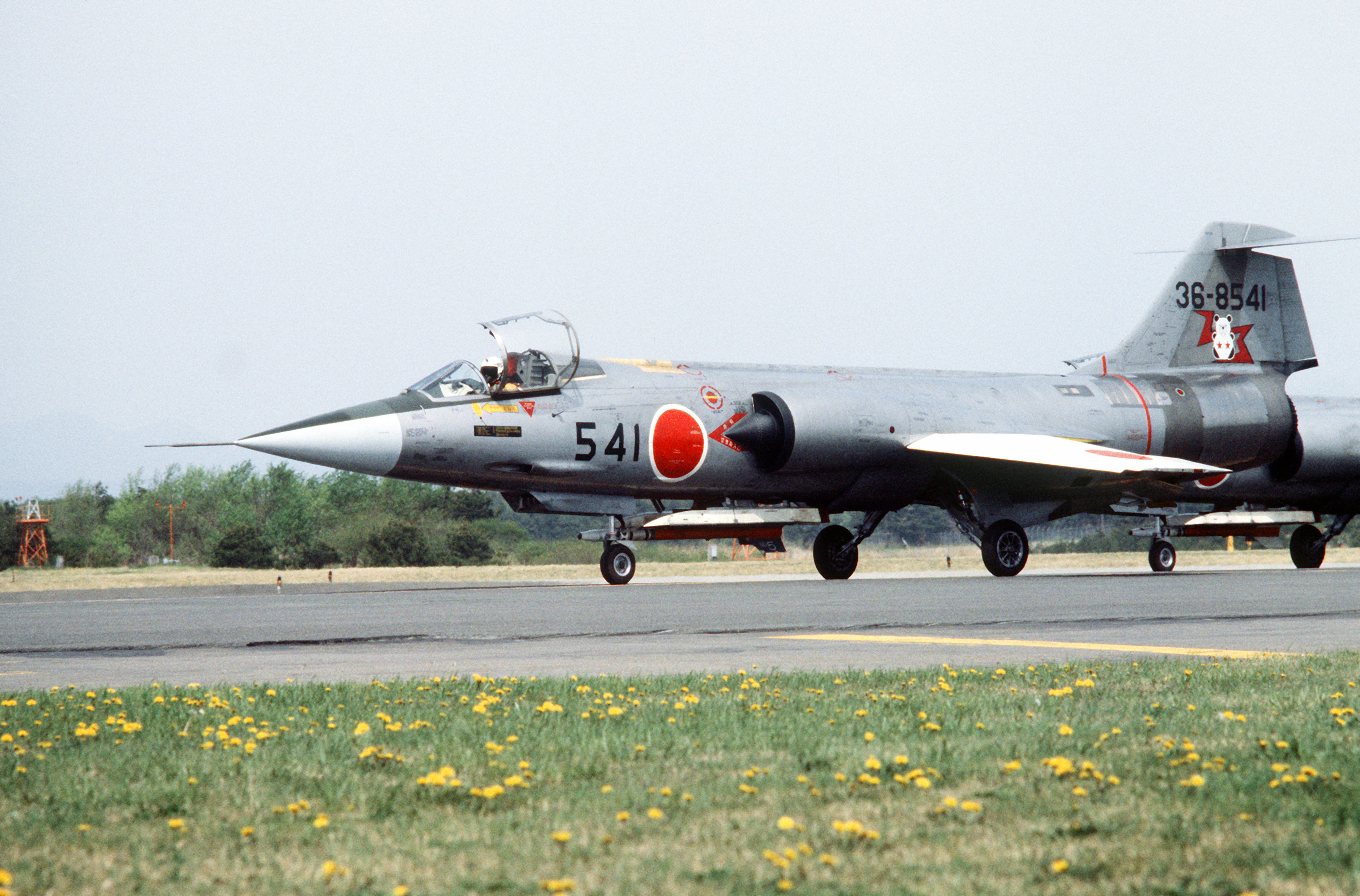 A left front view of a Japanese Air Self Defense Force F-104 Starfighter aircraft after returning from a Cope North mission. Scope & Content The original finding aid described this photograph as: Subject Operation/Series: COPE NORTH Base: Kwang Ju Air Base Country: Korea Scene Camera Operator: SSGT Terry Smith Release Status: Released to Public